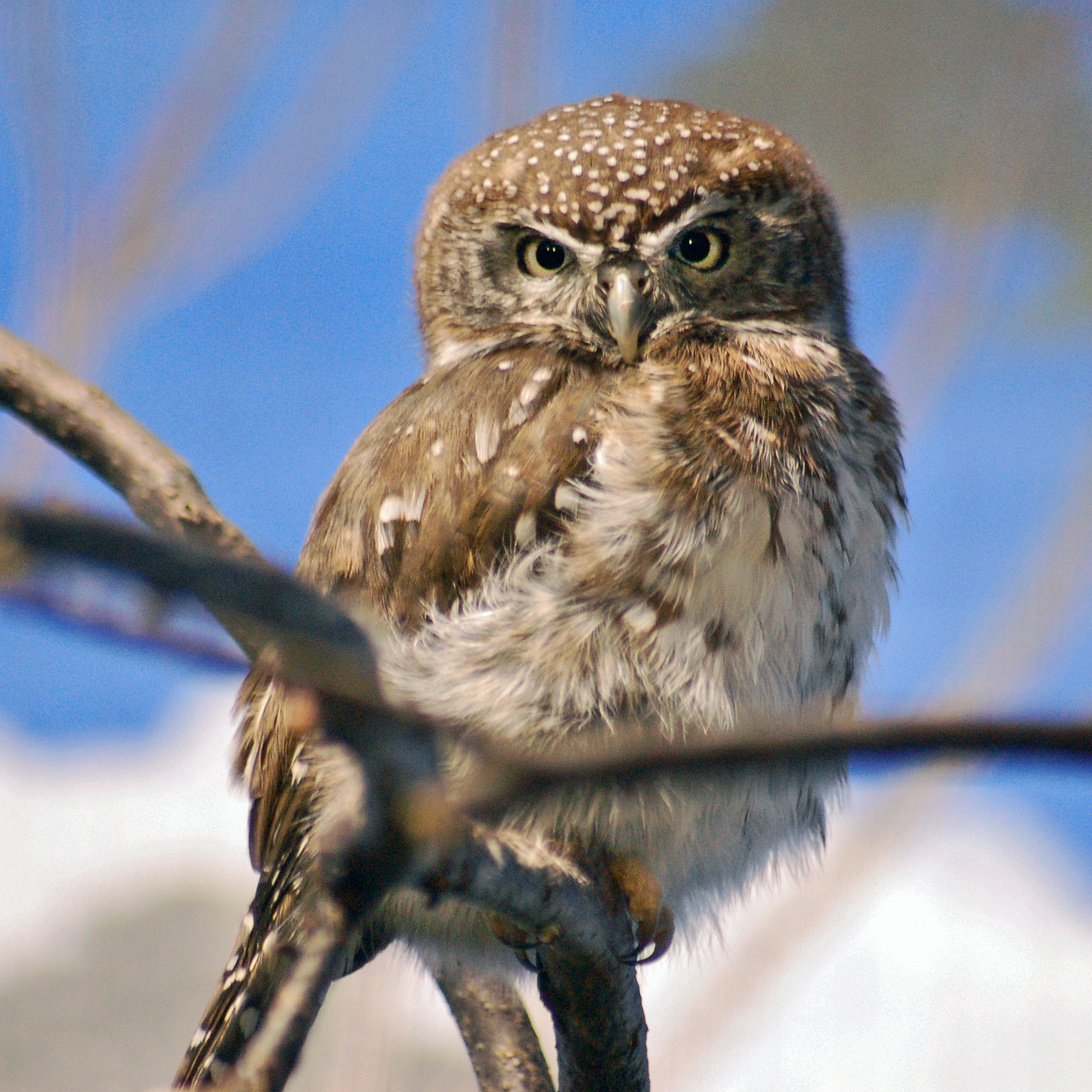 A photograph of a Pearl-spotted Owleten (Glaucidium perlatum en ). Photo taken at the National Aviary.